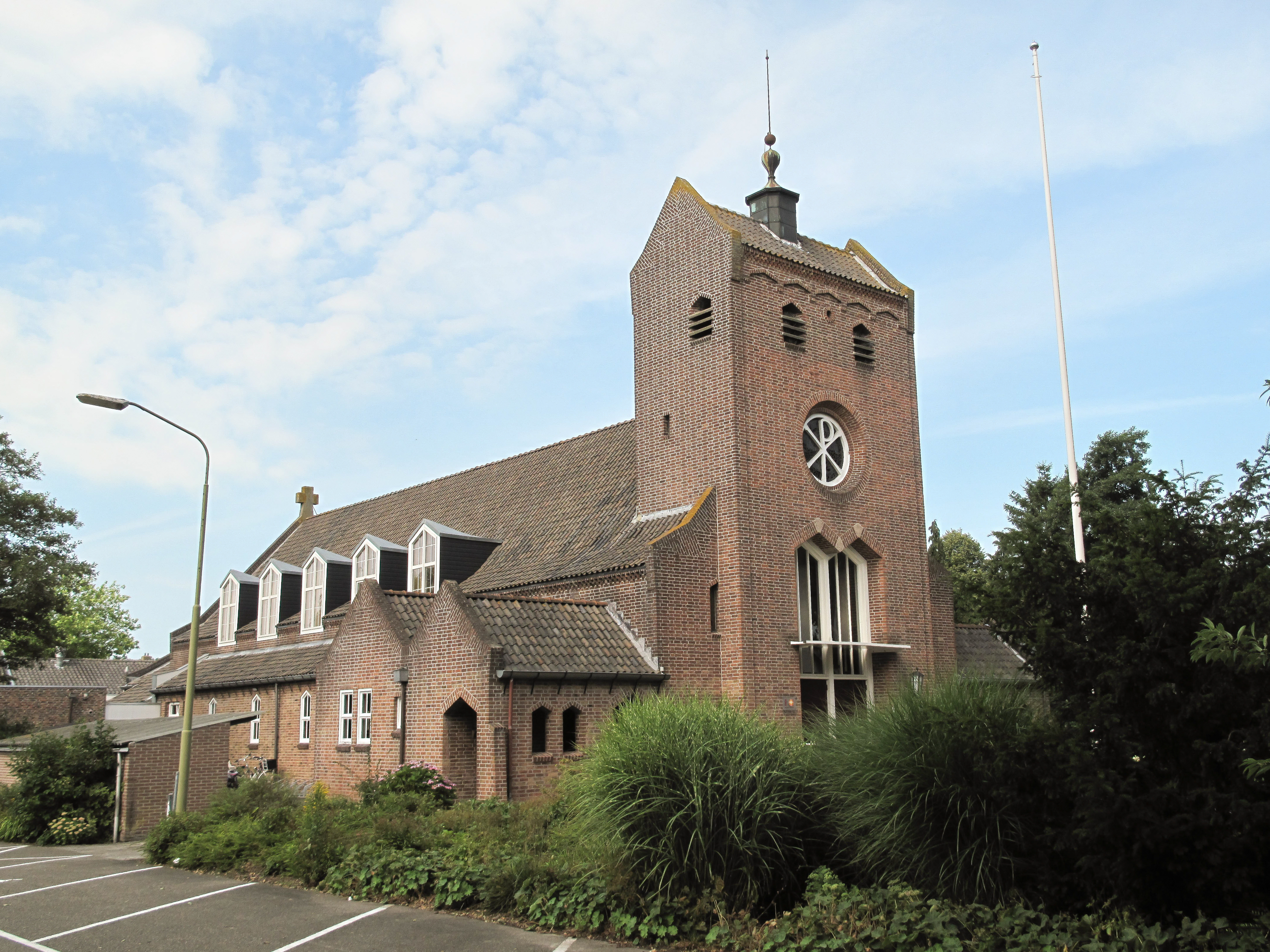 Zuidhorn, reformed church